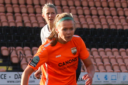 London Bees v Tottenham Hotspur LFC, 10 February 2019 - Ruesha Littlejohn of London Bees in front of Emma Beckett of Tottenham Hotspur.